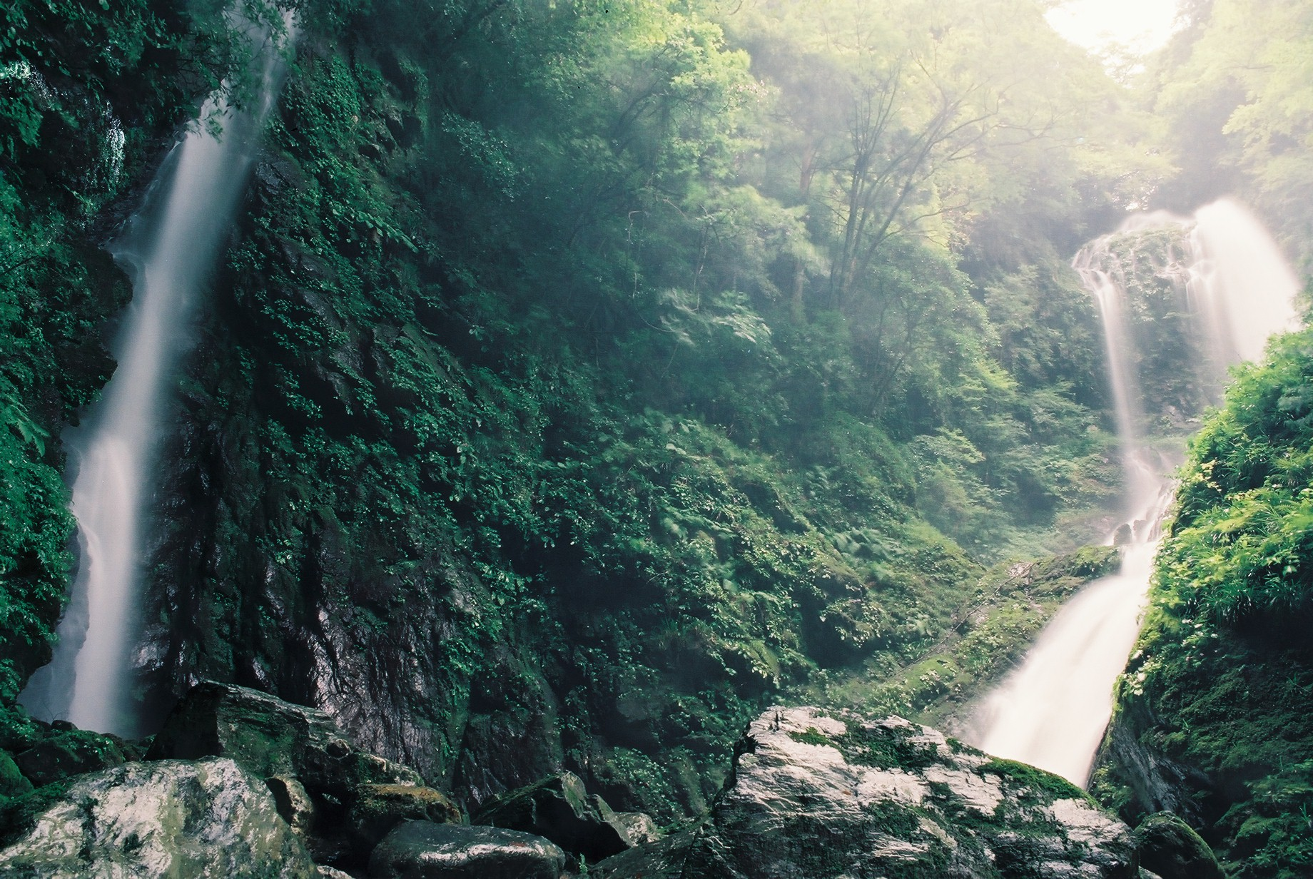 Amagoi Waterfalls(Amagoinotaki) the left side is Odaki(Male Falls) and the right side is Medaki(Female Falls).